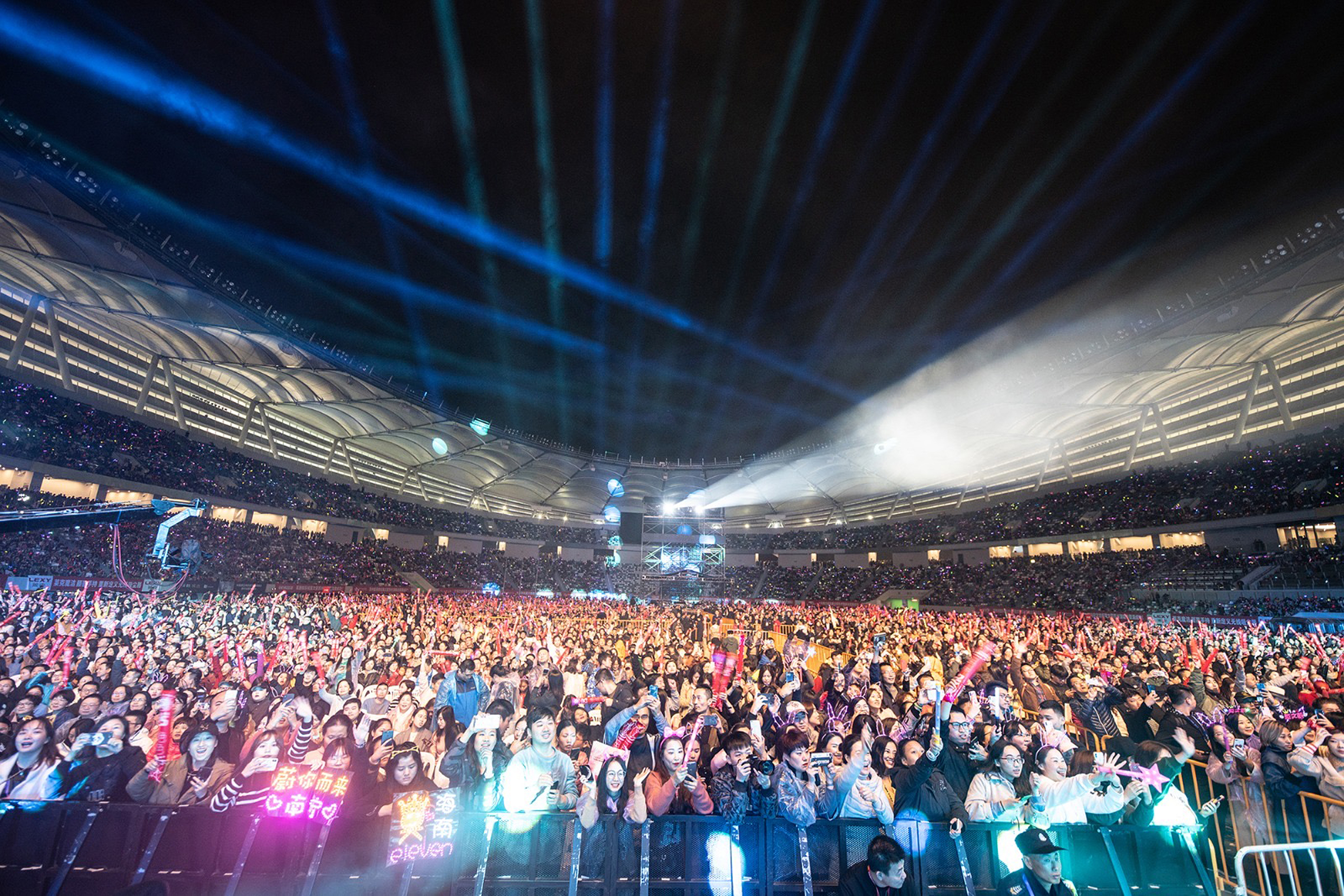 Open air pop concert